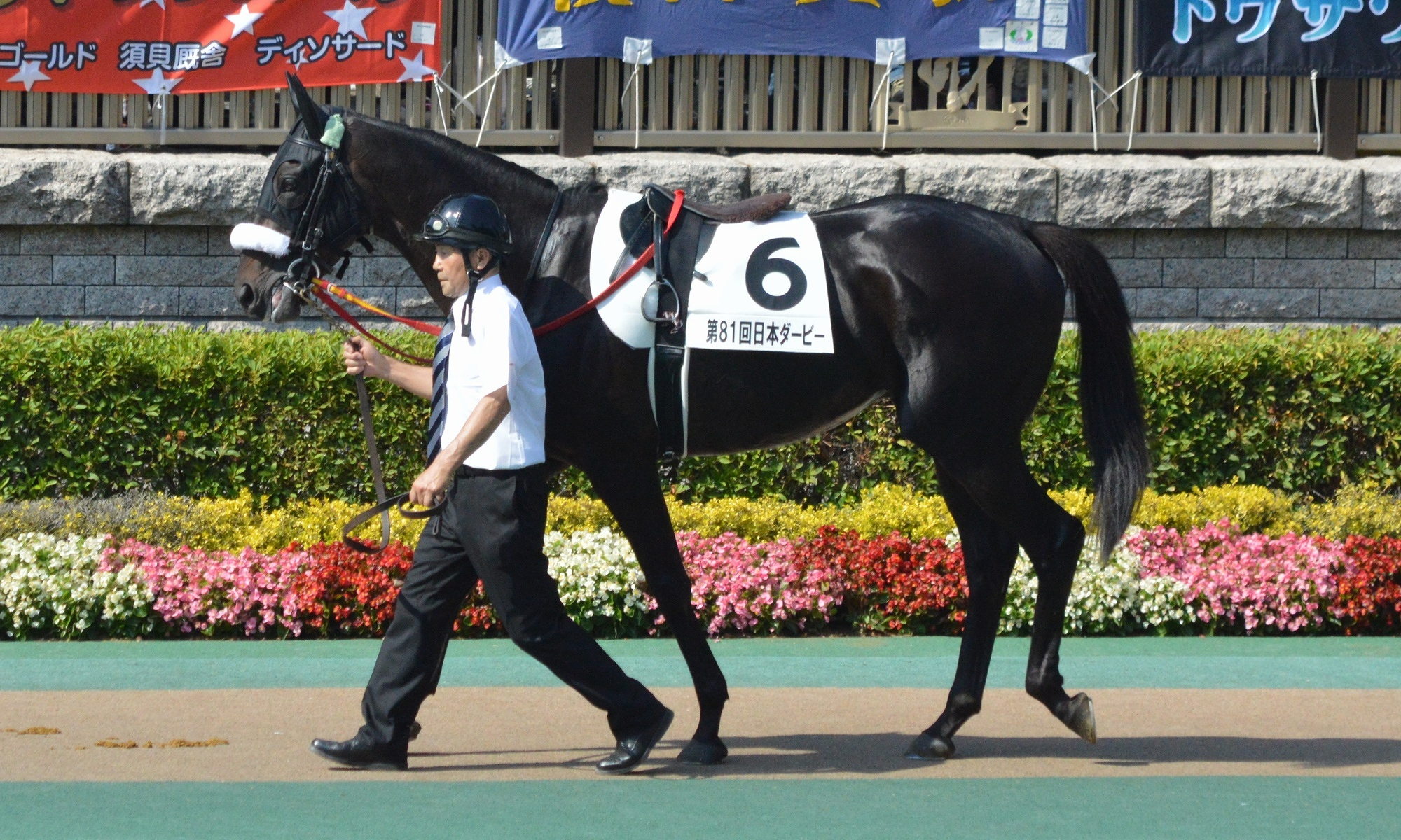 Japanese race horse Shonan Lagoon at Tokyo racecourse. Tokyo (JPN) 01 Jun 2014Tokyo Yushun (Japanese Derby) (Grade 1) (3yo Colts & Fillies) (Turf) 1m4f Firm RankHorse NameOddsAgeWgtTrainerJockey1stOne And Only (JPN)23/5C39-0Kojiro HashiguchiNorihiro Yokoyama2ndIsla Bonita (JPN)17/10FC39-0Hironori KuritaMasayoshi Ebina3rdMeiner Frost (JPN)107/1C39-0Noboru TakagiMasami Matsuoka4th - 5th/omission6thShonan Lagoon (JPN)31/1C39-0Yokichi OkuboYutaka Yoshida